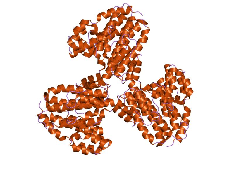 Cartoon representation of the molecular structure of protein registered with 1r5z code.